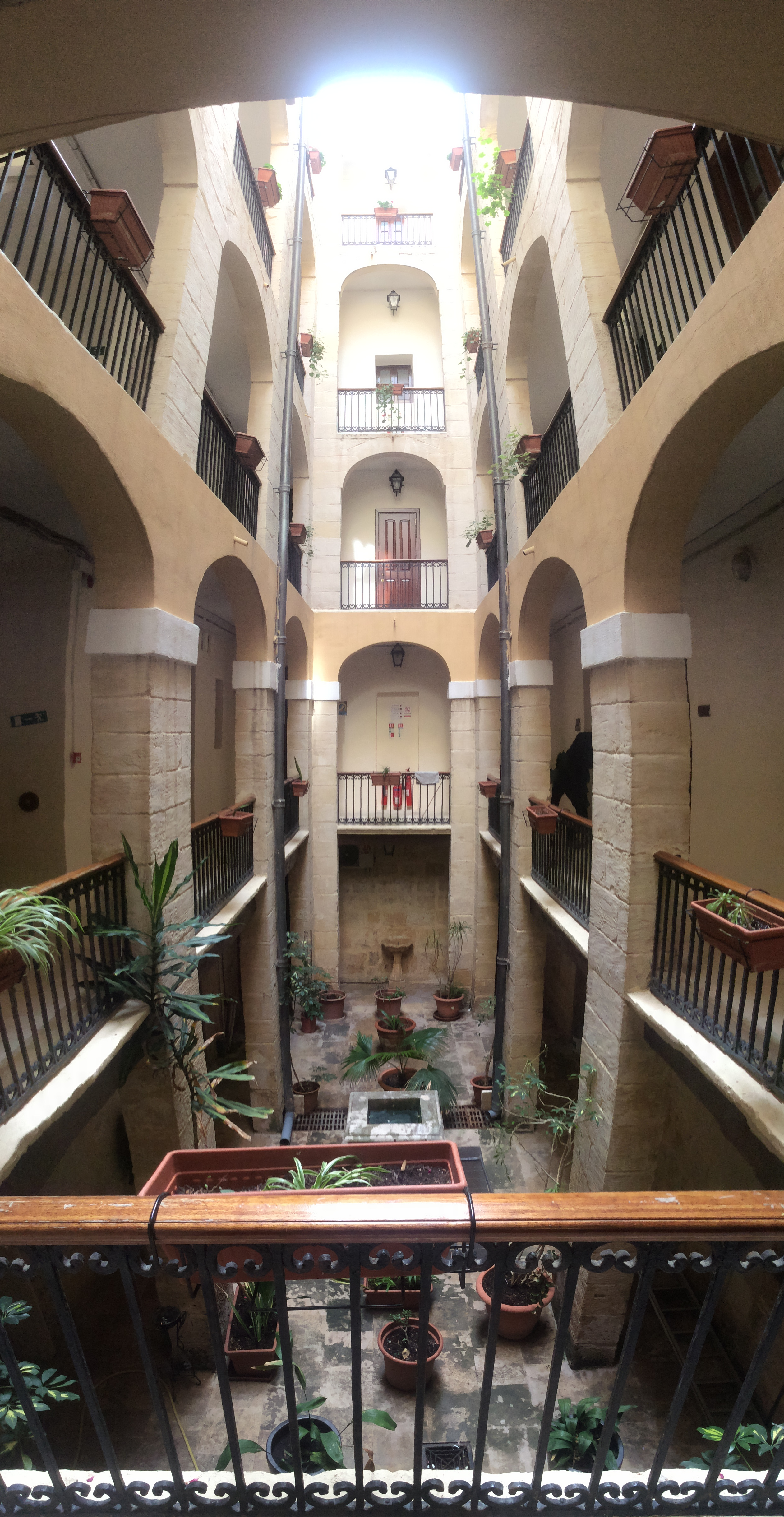 Courtyard of the prison grounds of the Castellania in Valletta, Malta